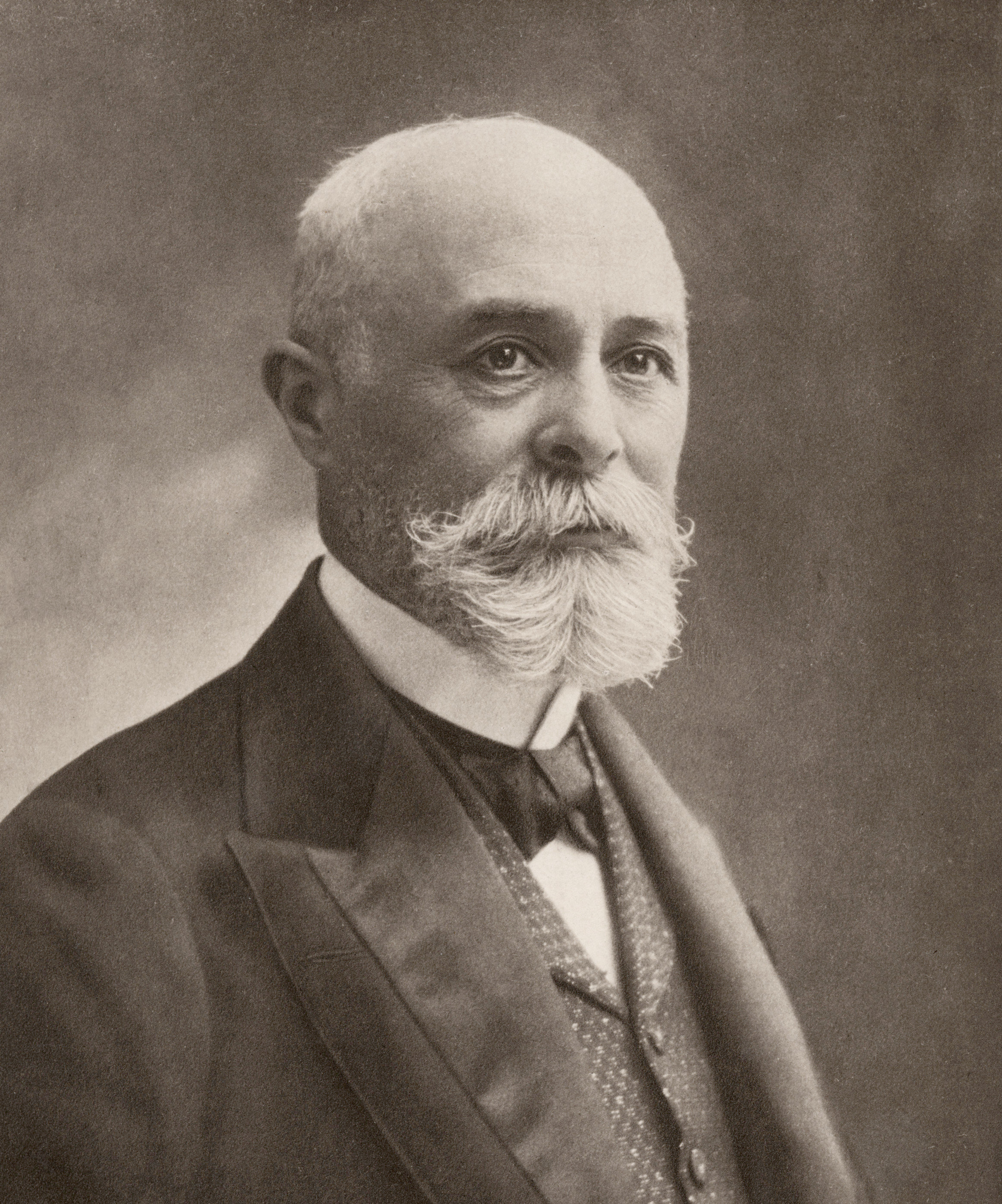 Creator/Photographer: Paul Nadar Birth Date: 1856 Death Date: 1939 Medium: Medium unknown Dimensions: 21.1 cm x 15.3 cm Date: prior to 1908 Collection: Scientific Identity: Portraits from the Dibner Library of the History of Science and Technology - As a supplement to the Dibner Library for the History of Science and Technology's collection of written works by scientists, engineers, natural philosophers, and inventors, the library also has a collection of thousands of portraits of these individuals. The portraits come in a variety of formats: drawings, woodcuts, engravings, paintings, and photographs, all collected by donor Bern Dibner. Presented here are a few photos from the collection, from the late 19th and early 20th century. Persistent URL: [1] Repository: Smithsonian Institution Libraries Accession number: SIL14-B2-08